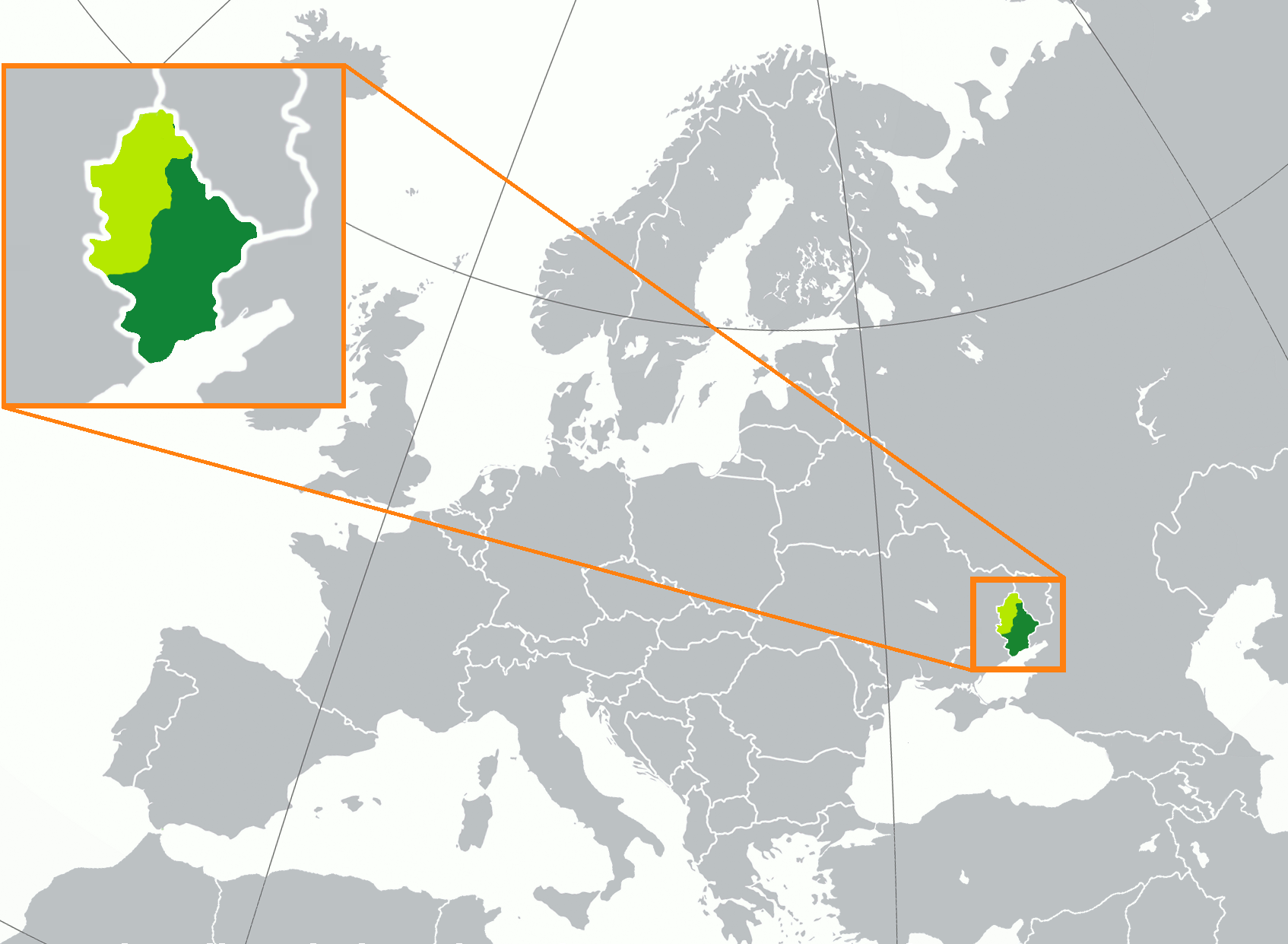 territory controlled by the self-proclaimed Donetsk People's Republic (dark green) inside of the Donetsk Oblast (light green)